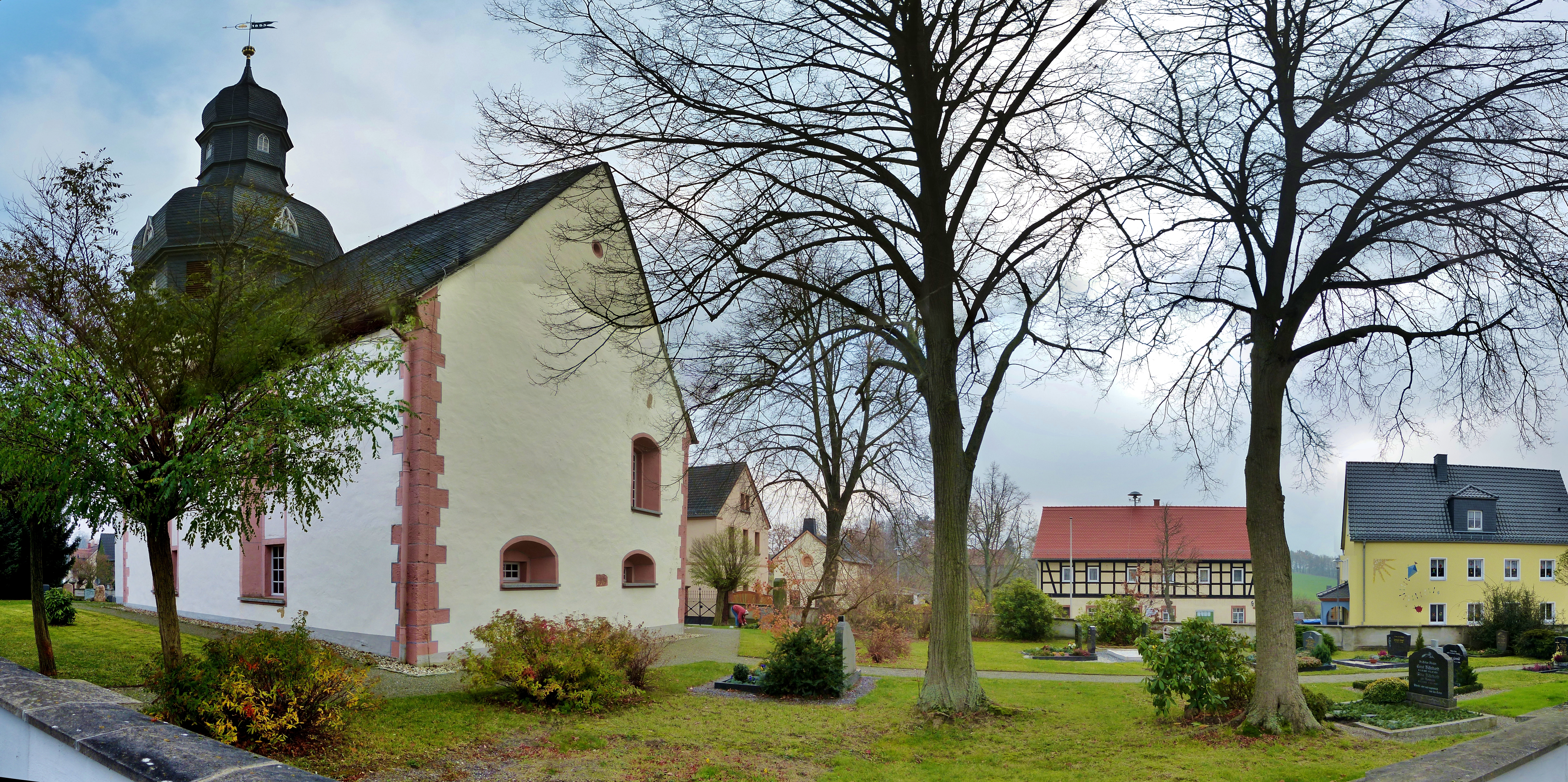 Church in Linda